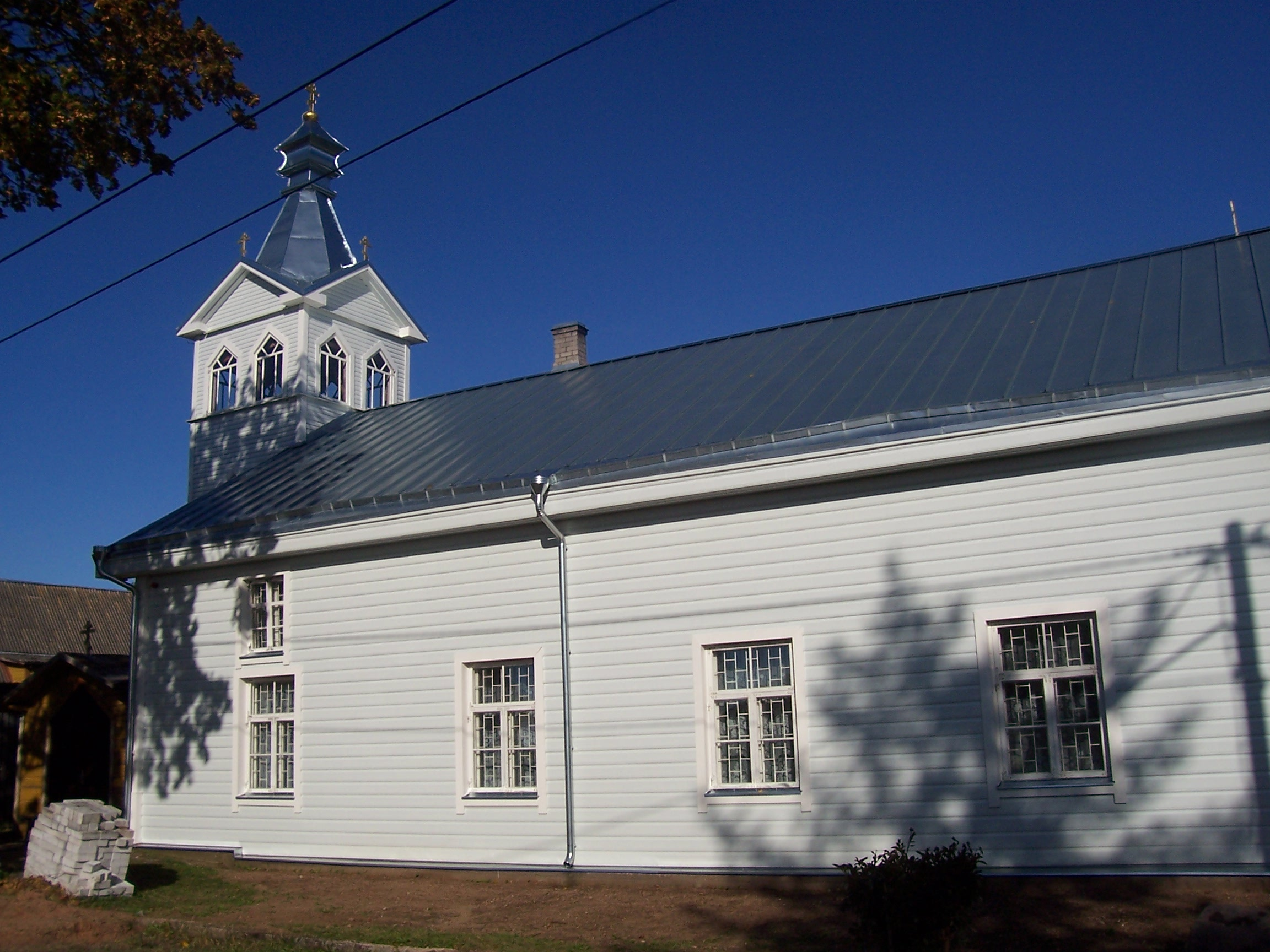 Orthodox church in Kallaste